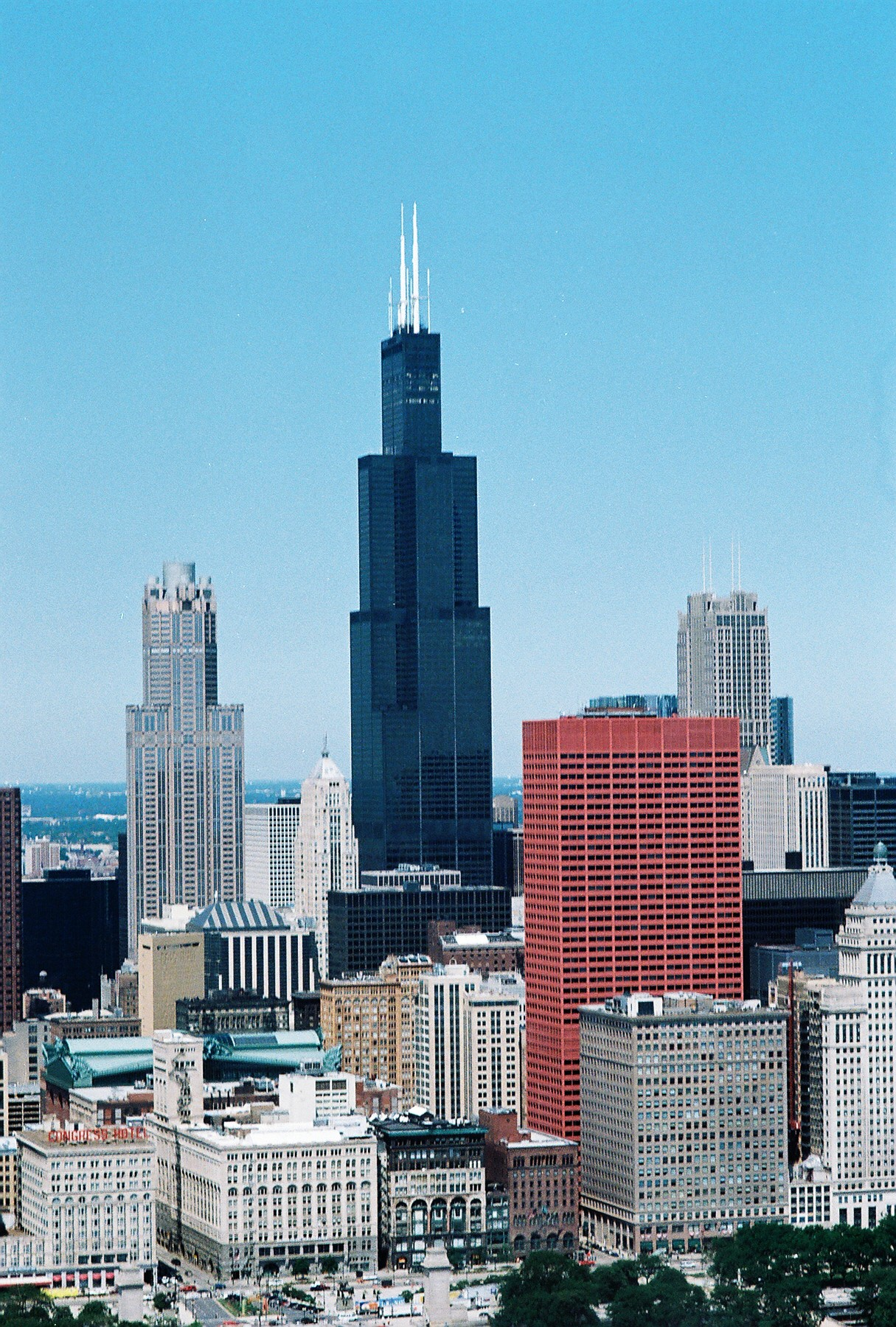 Sear's Tower